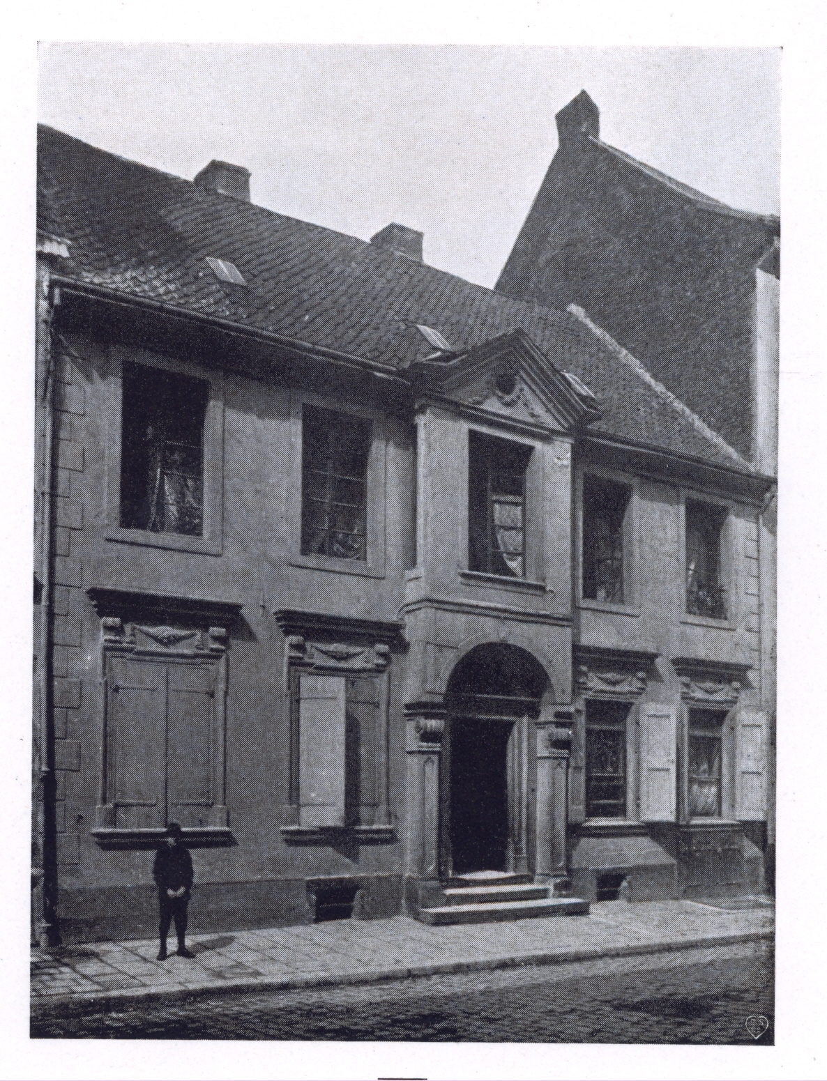 t